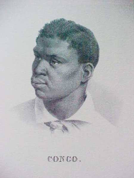 Slave from Congo